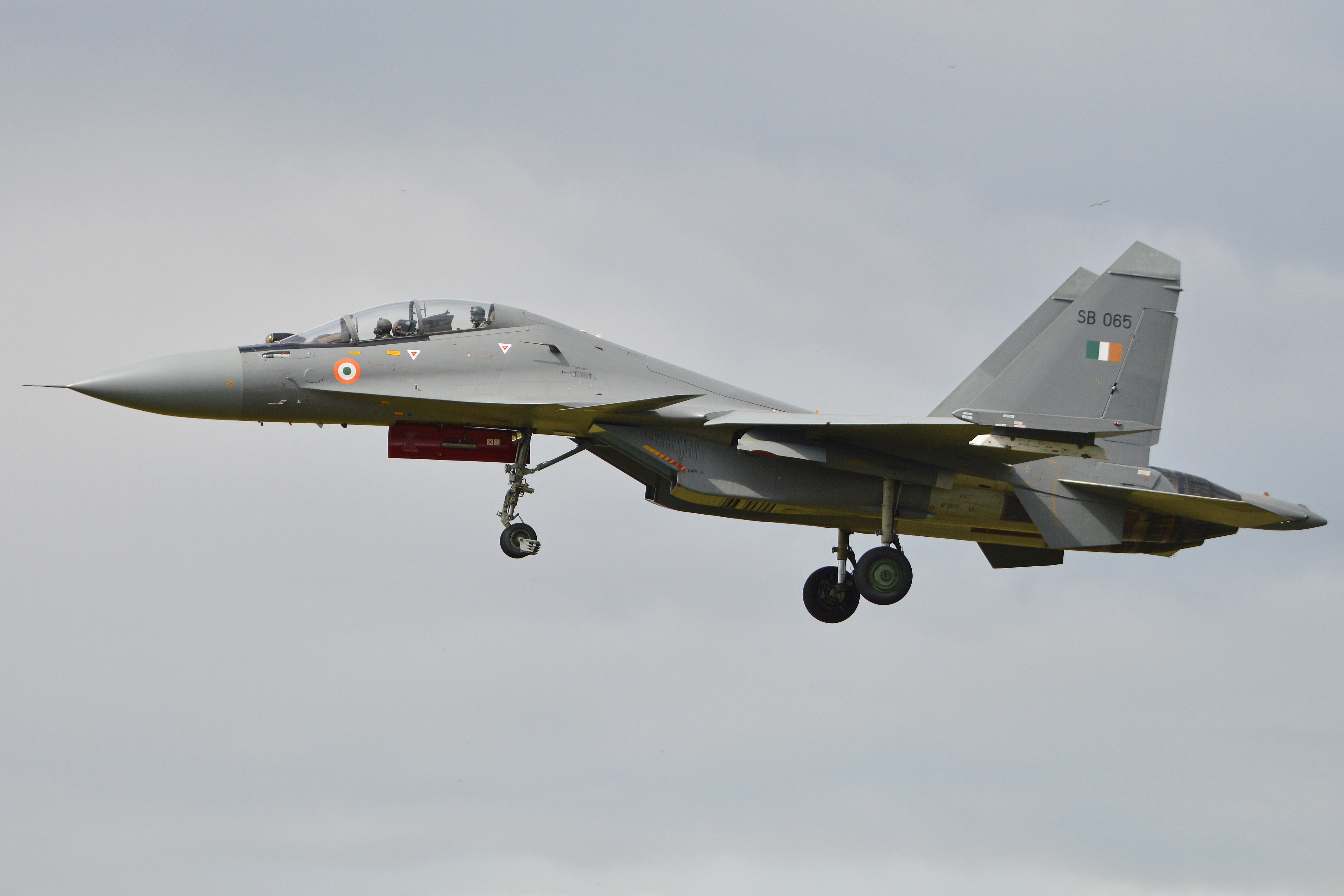 Operated by 2sqn, Indian Air Force, and based at Kalaikunda. Seen landing at RAF Coningsby, Lincolnshire, UK, during Operation Indradhanush IV.